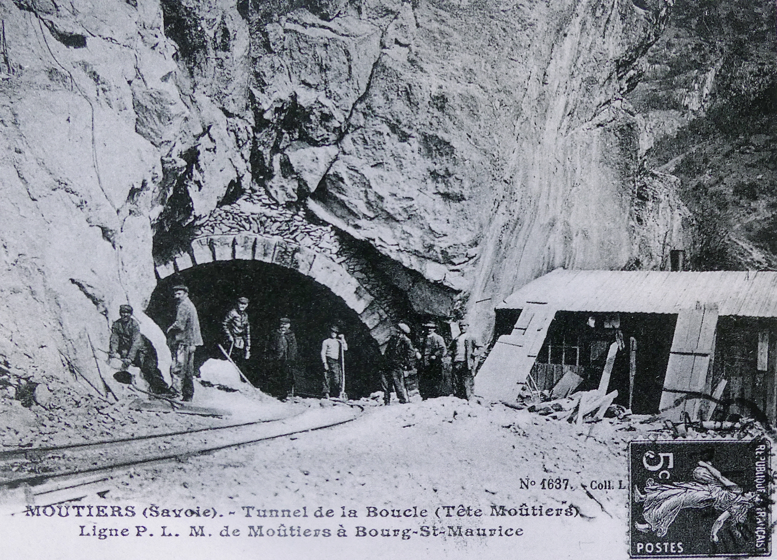 Sight of workers during the construction of the Tunnel de la Boucle rail tunnel, on the side of Moûtiers in the Tarentaise valley, between 1906 and 1909, in Savoie, France.